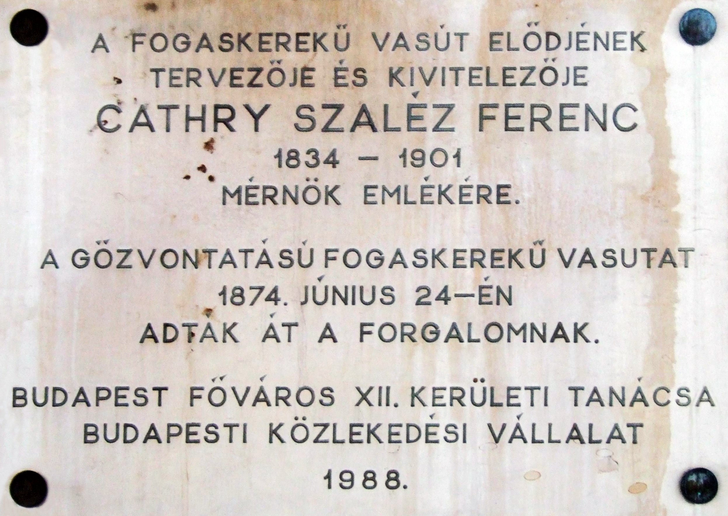 Ferenc Cathry Szaléz commemorative plaque in Budapest District XII, Eötvös Street No 1.